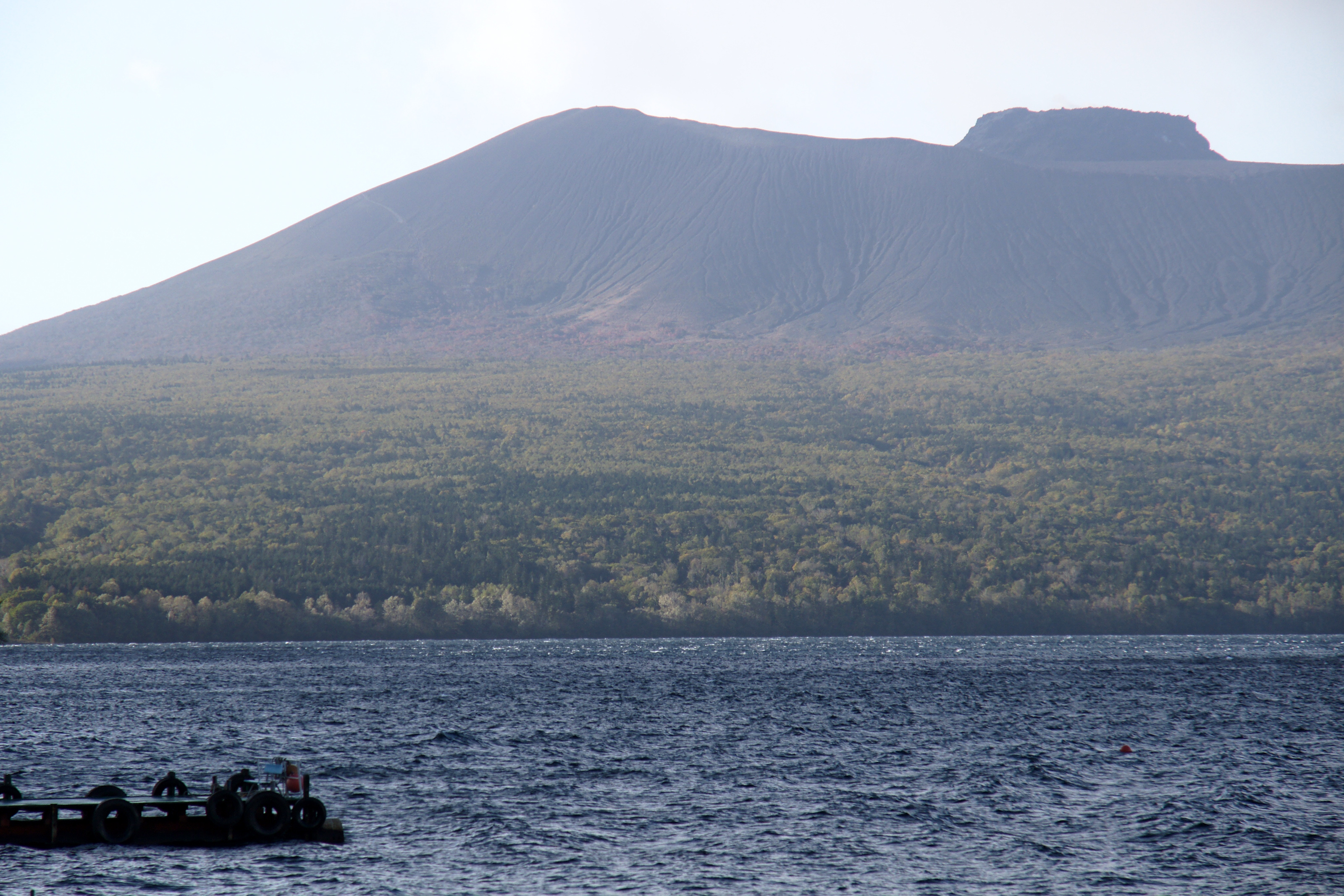 Mt. Tarumae view from Lake Shikotsu, Chitose, Hokkaido prefecture, Japan